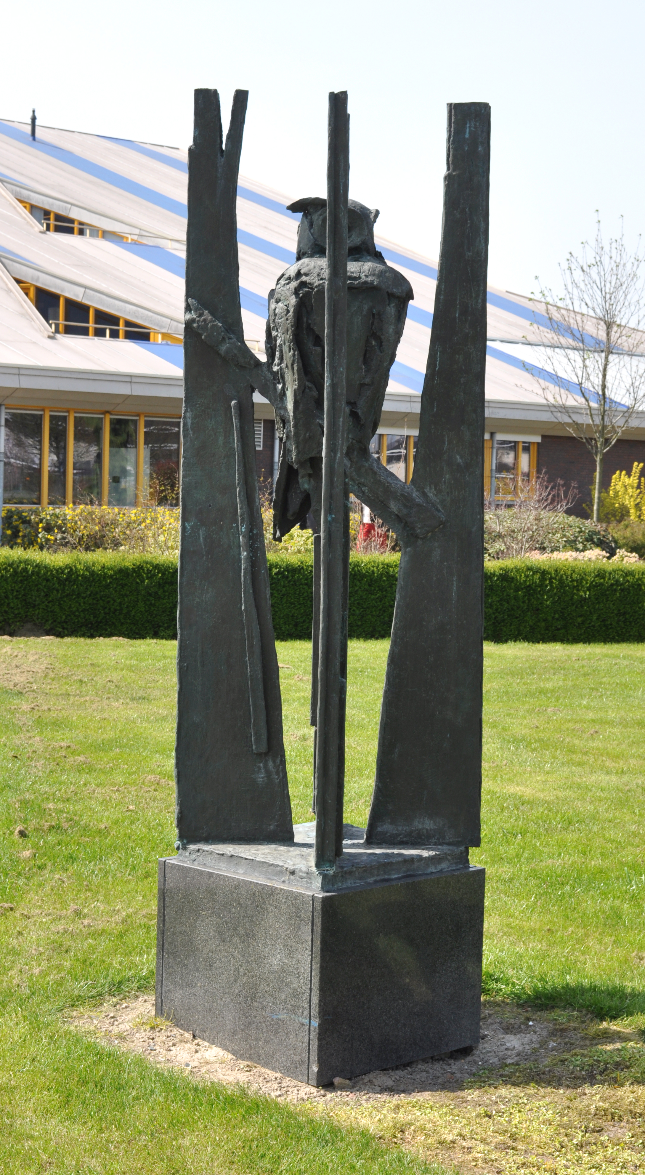 Sculpture "Uil" (Owl) by Eric Claus at the Laan van Leeuwenstein (Lingeborgh) in Geldermalsen.